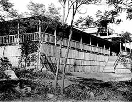 Taken from - a NPS website, therefore in the public domain as the work of a government entity